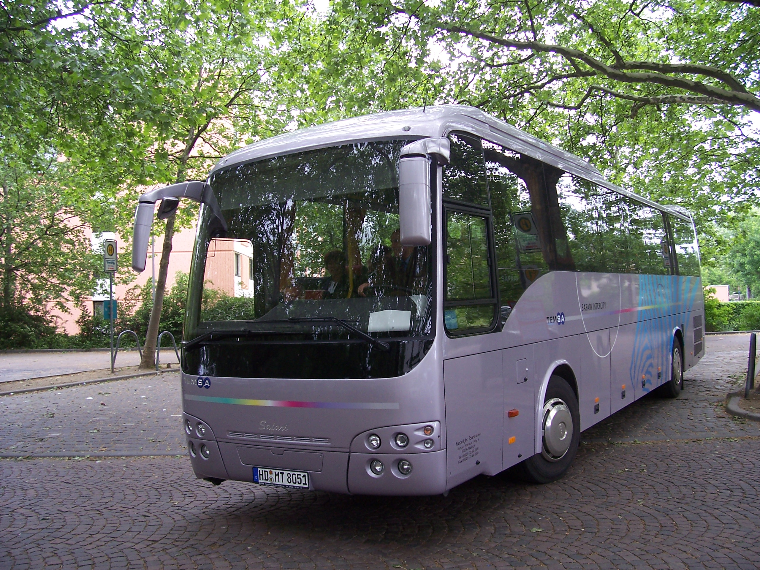 Temsa Safari Intercity bus (HD-MT 8051) in Mannheim, Germany. Moonlight Tours GmbH operator.